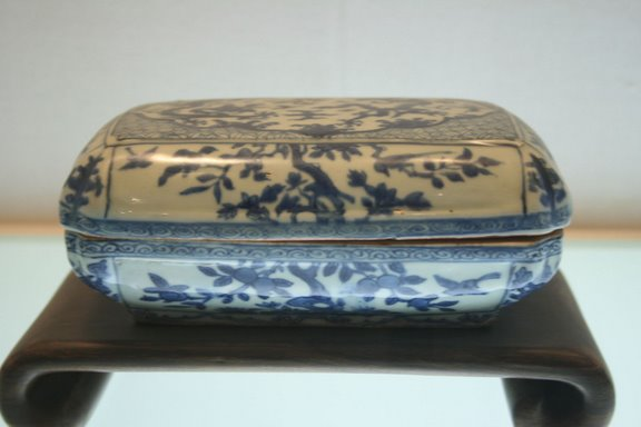 A Chinese Ming Dynasty (1368-1644 AD) blue-and-white porcelain box from the reign of the Wanli Emperor (1572-1620 AD).